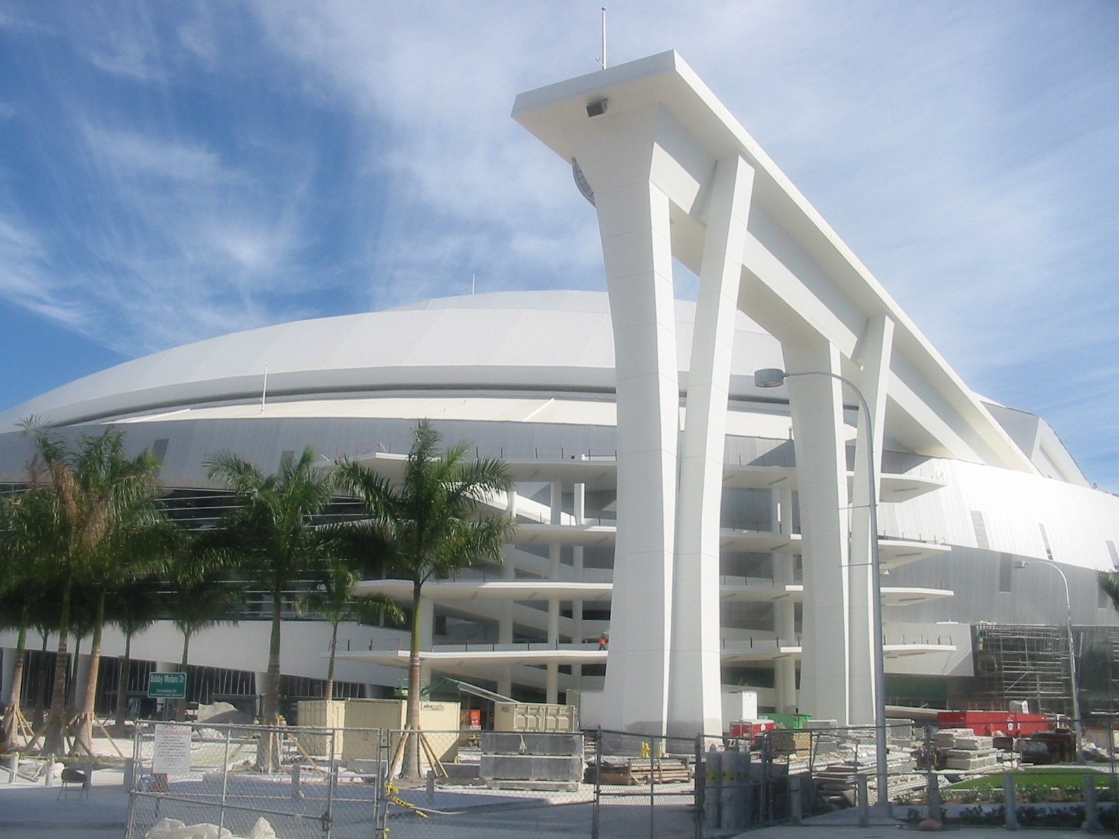 Marlins Park under construction in January 2012.